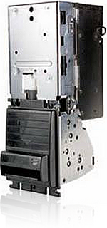 Validator - device (Cash registers) for ATM and for other bank machines